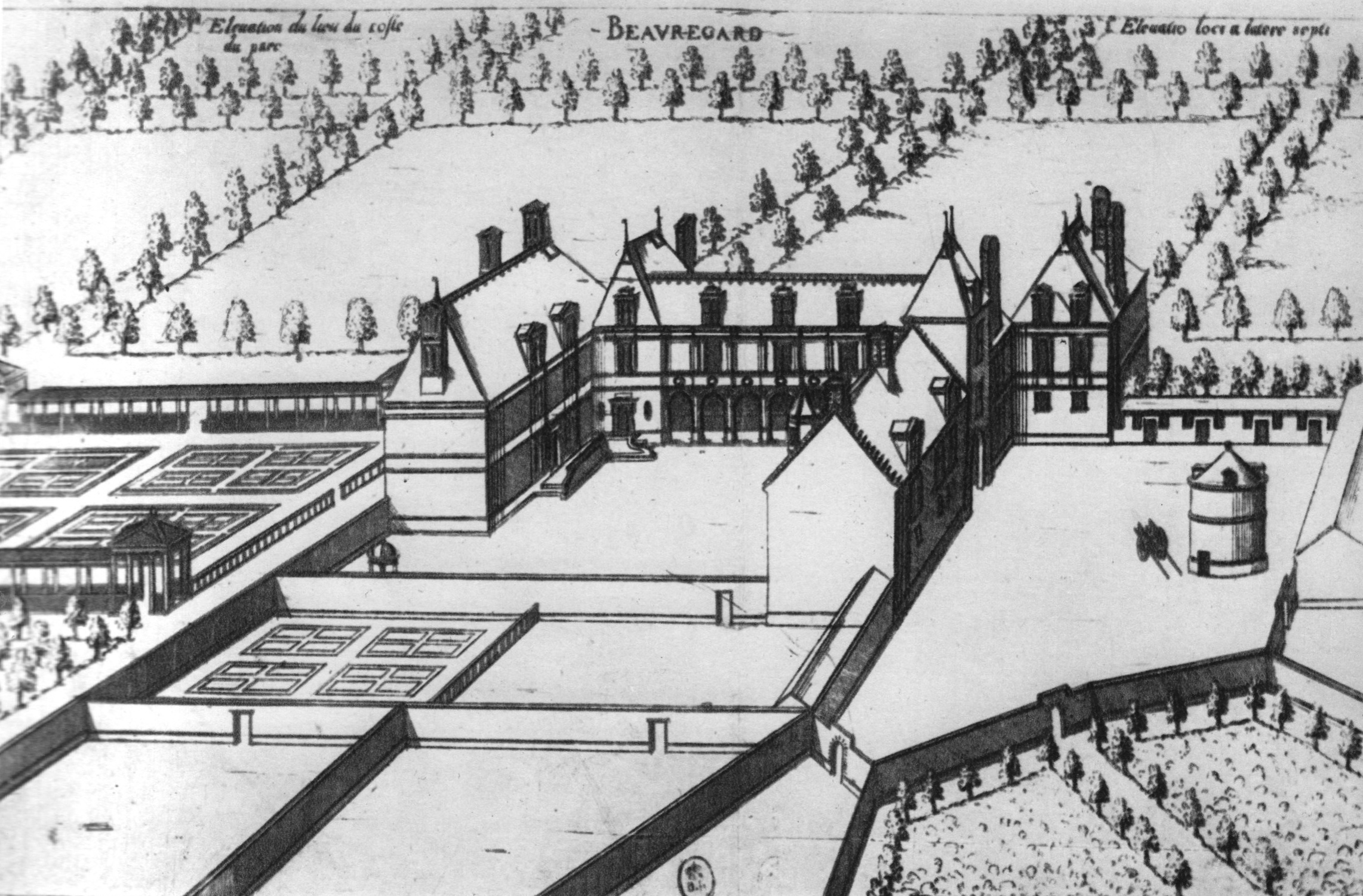 Engraving by Du Cerceau showing the chateau of Beauregard before the XIX century